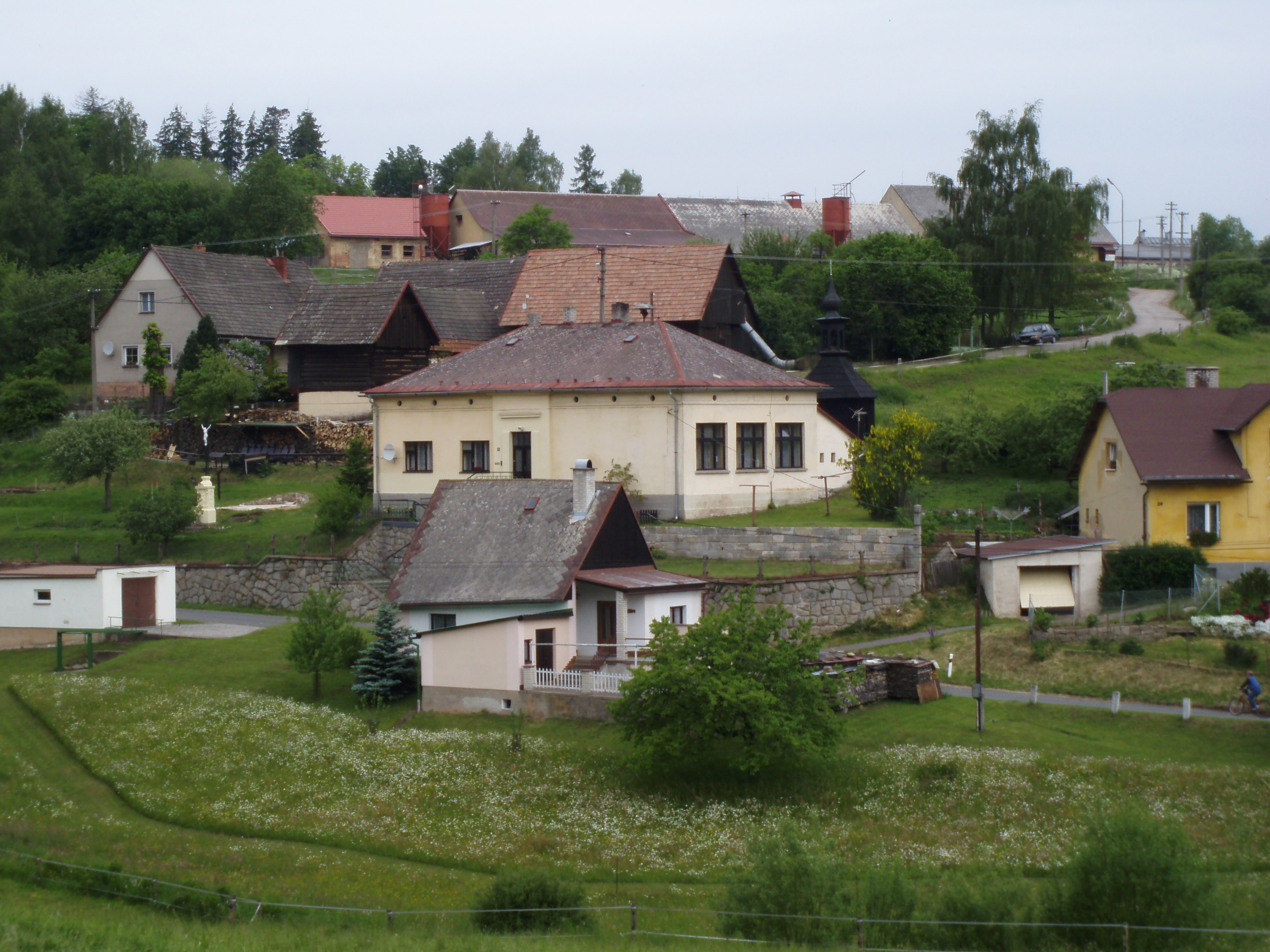 Maršov u Úpice (District of Trutnov)